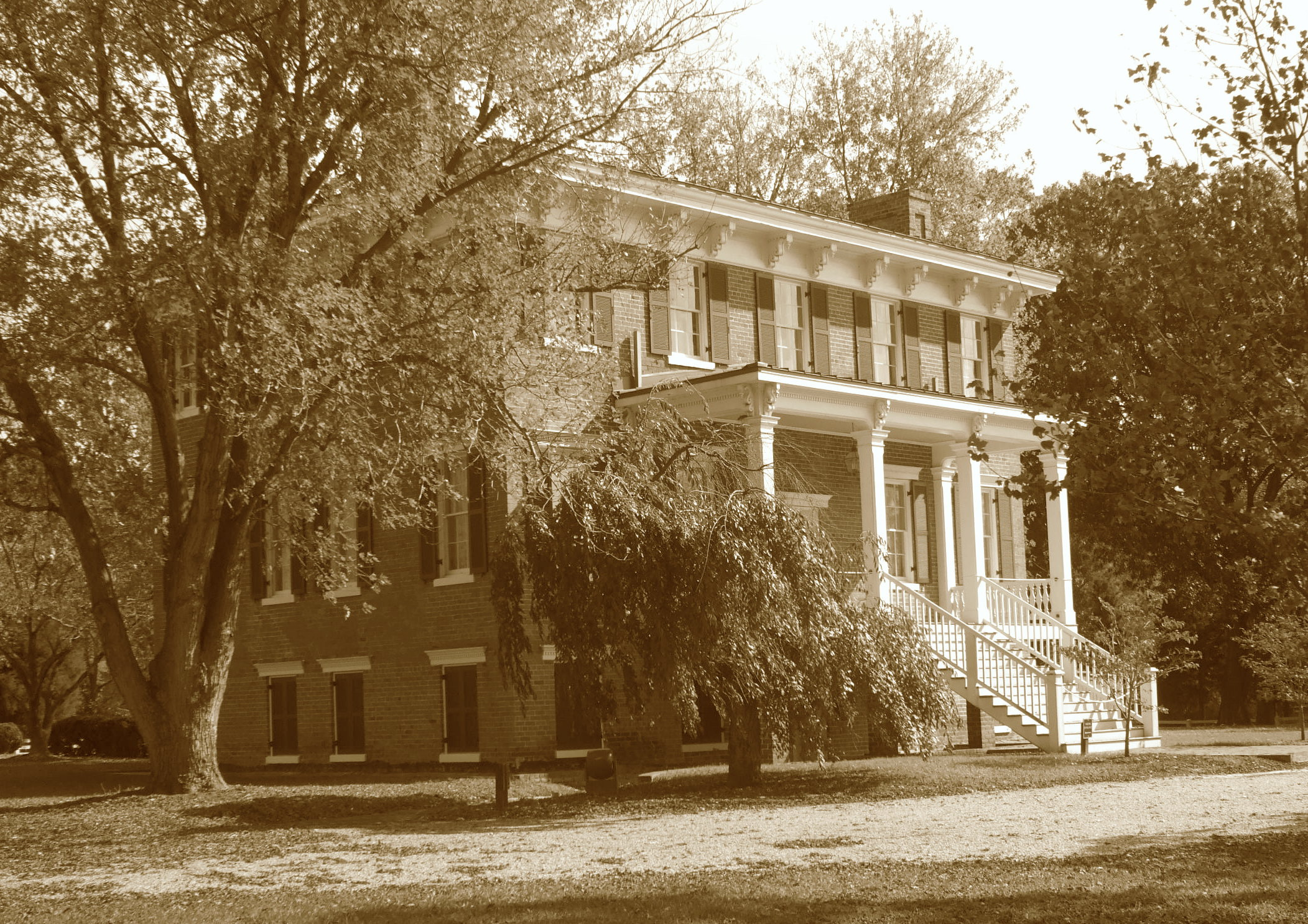 Photo of Lee Hall Mansion, Lee Hall, Newport News, VA